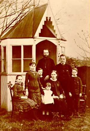 Reverend Benjamin Waugh with his family in their garden at St. Albans, England.